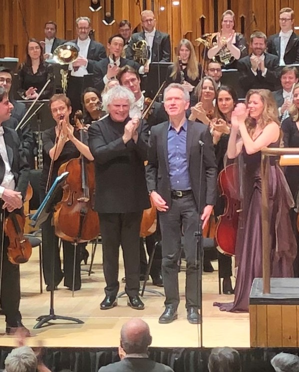 Hans Abrahamsen with Sir Simon Rattle & Barbara Hannigan London 10 Jan 2019